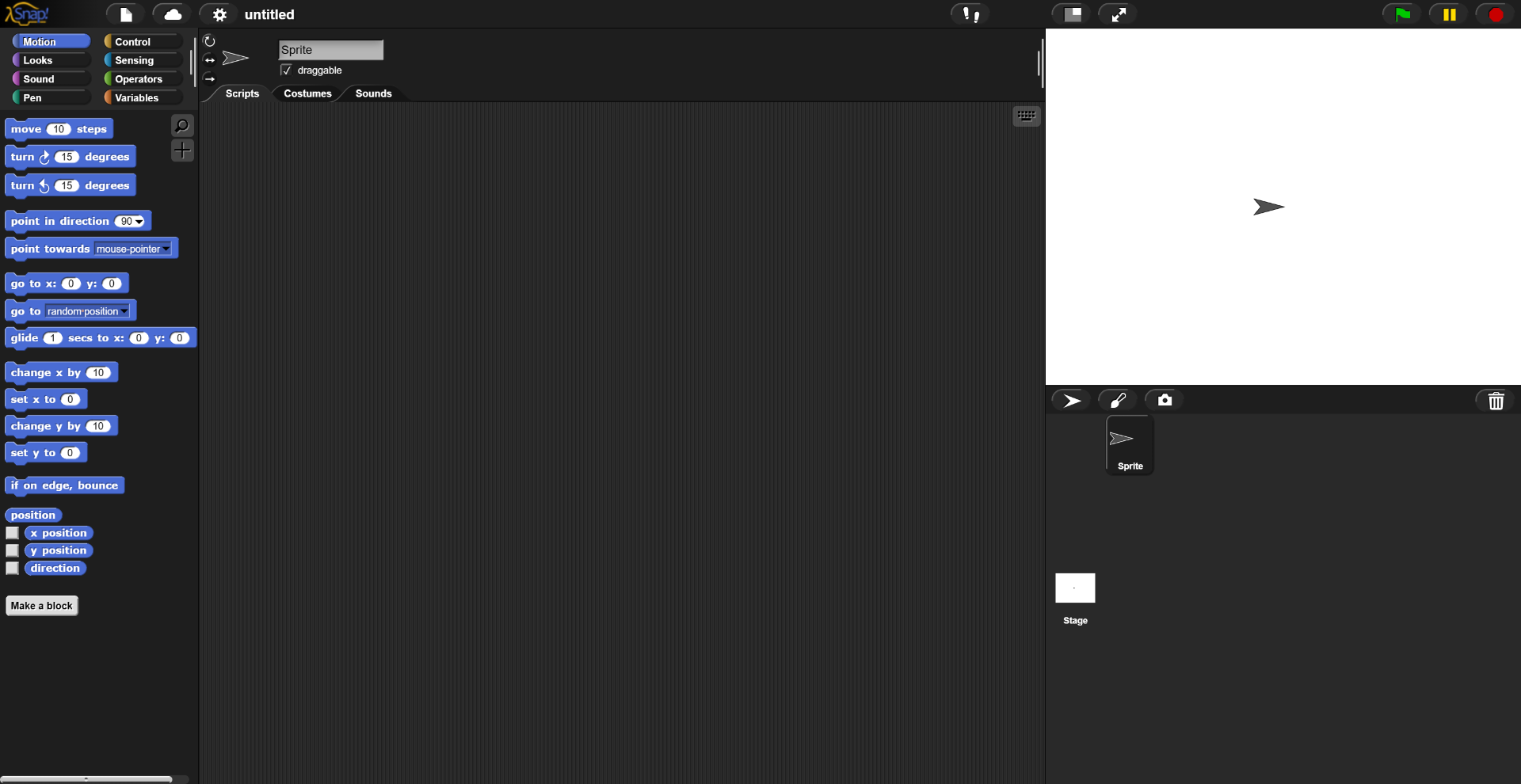 The screen that appears when you create a new project on the Snap! 4.0 website